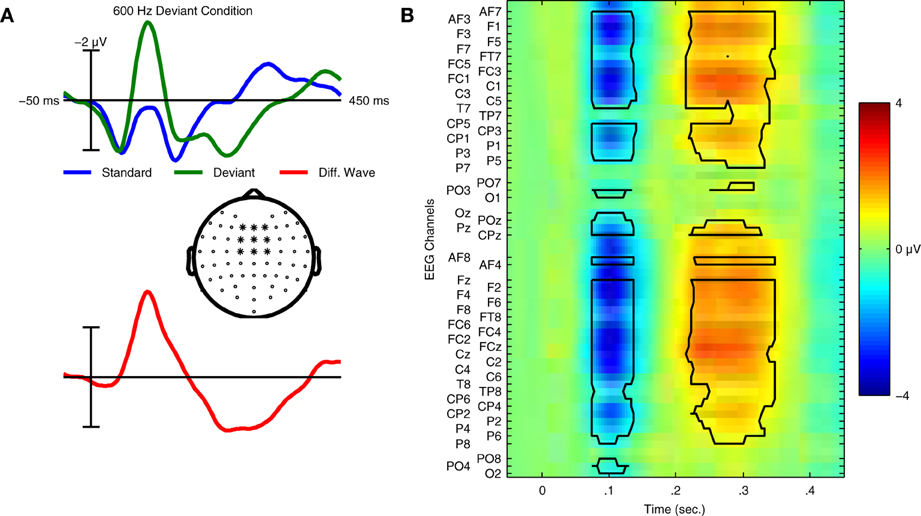 An example of a mismatch negativity (MMN) response of the event-related brain potential (ERP).